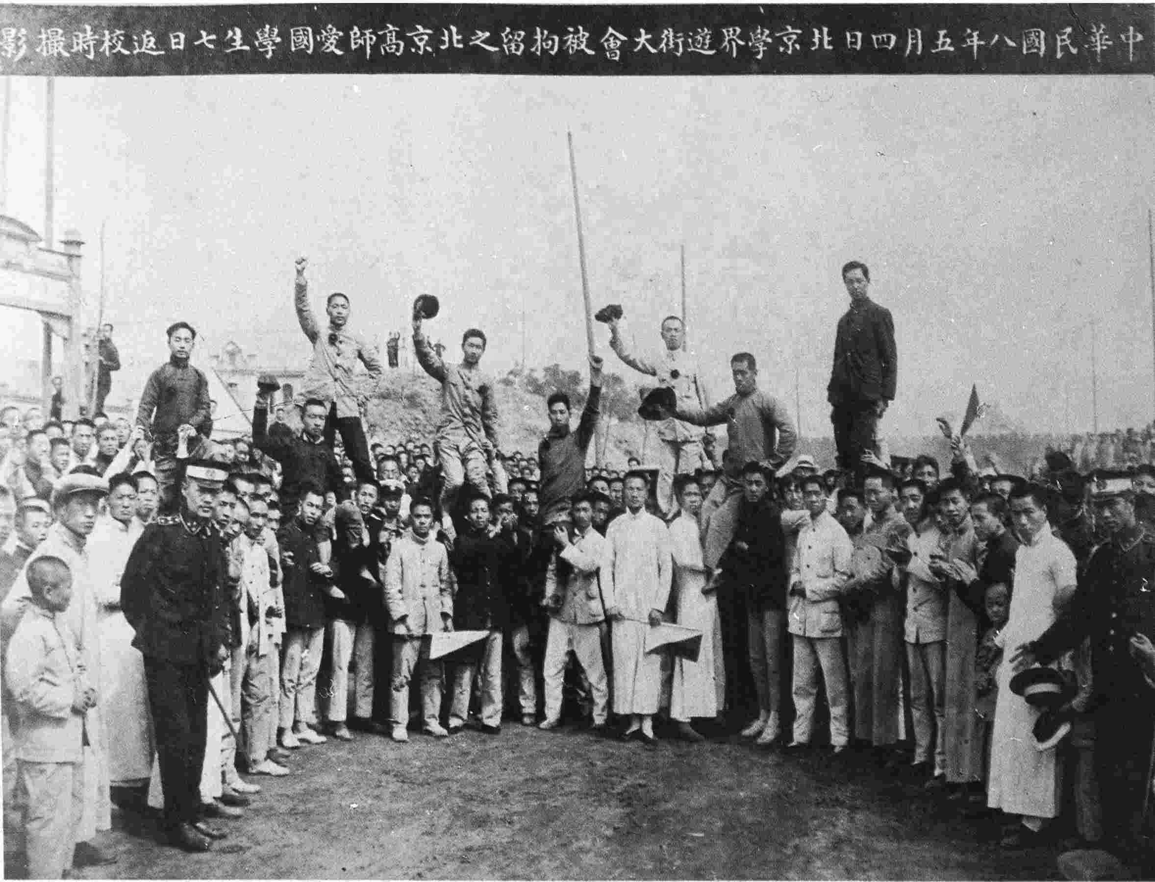 Students of Beijing Normal University returned to campus on May 7th, 1918 after being detained during the May Fourth Movement.